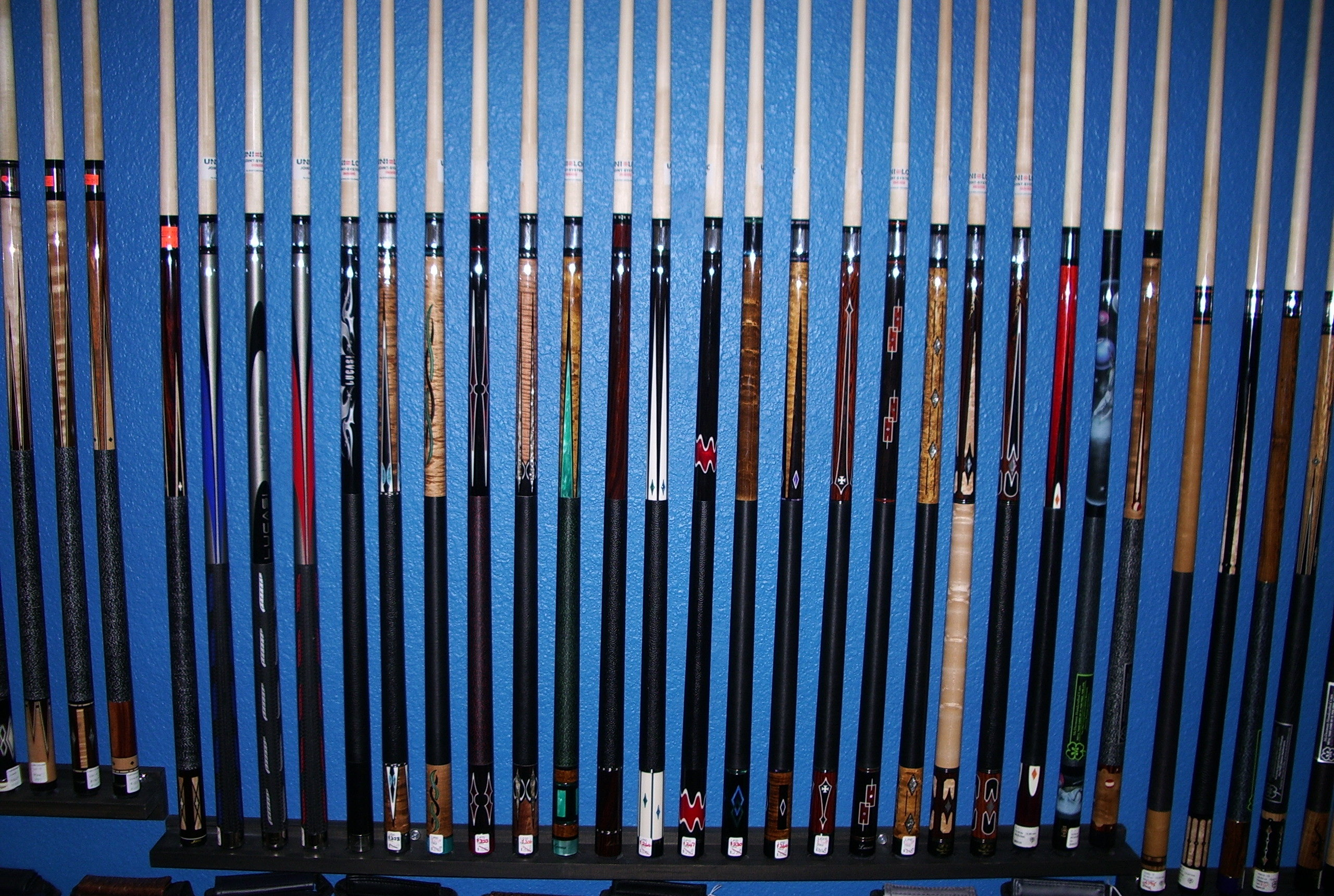 A variety of pool cues.